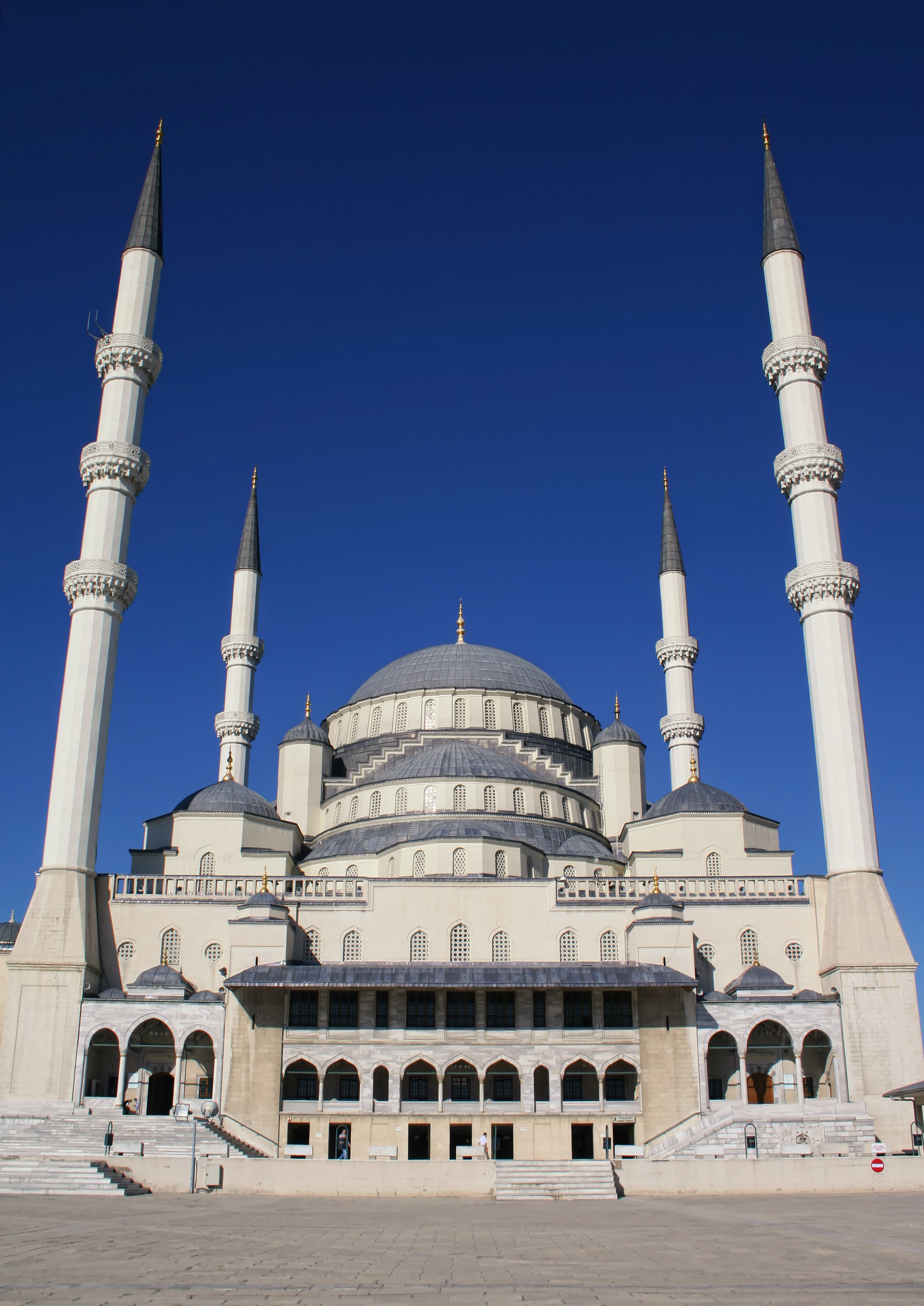 A view of the Kocatepe Mosque.